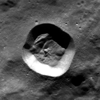 Rittenhouse lunar crater - LROC image. The inner wall of Schrödinger basin is seen at bottom right corner